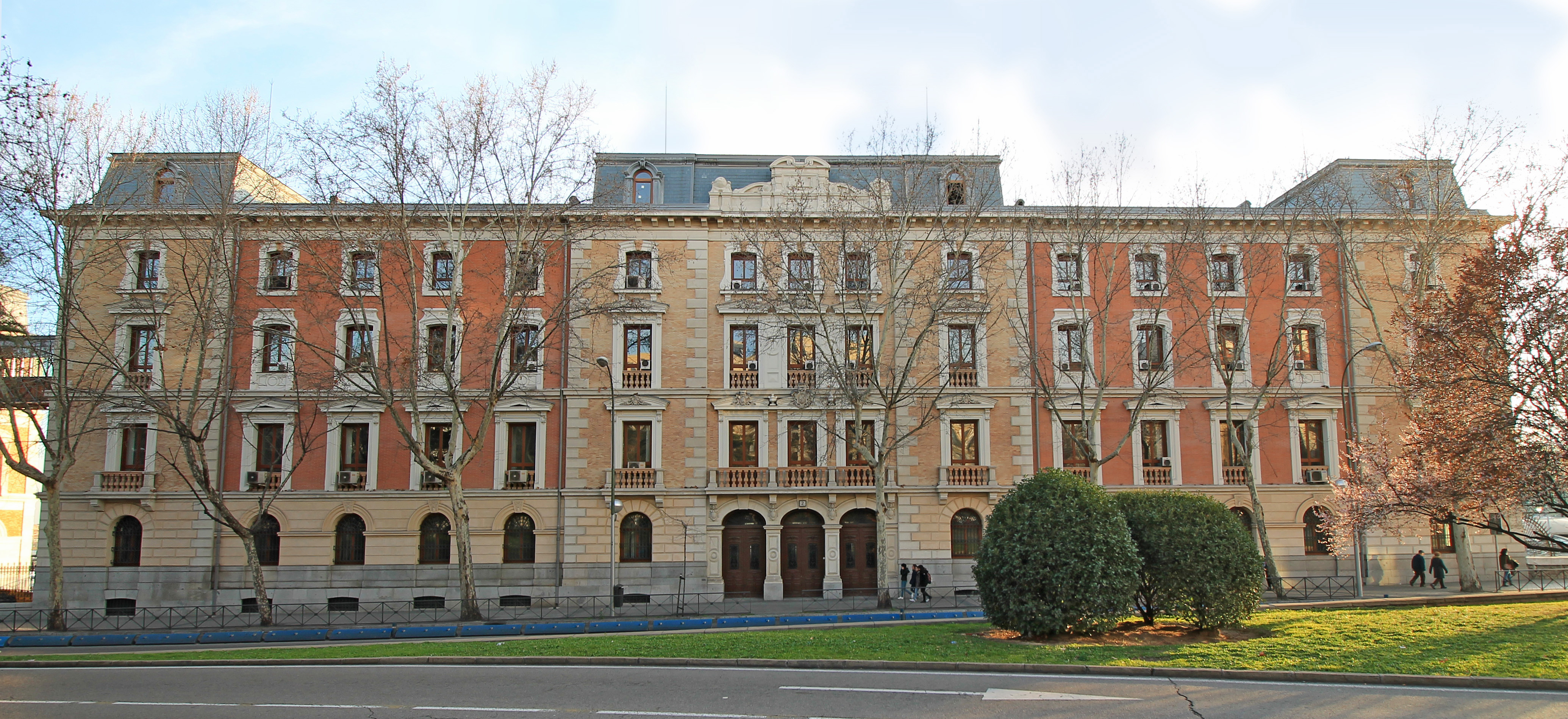 Façade of Adif offices at 2nd Avenida de la Ciudad de Barcelona (street) in Arganzuela District in Madrid (Spain). Building was designed in 1884 by architect Gerardo de la Puente Meliá and built from 1885 to 1890.